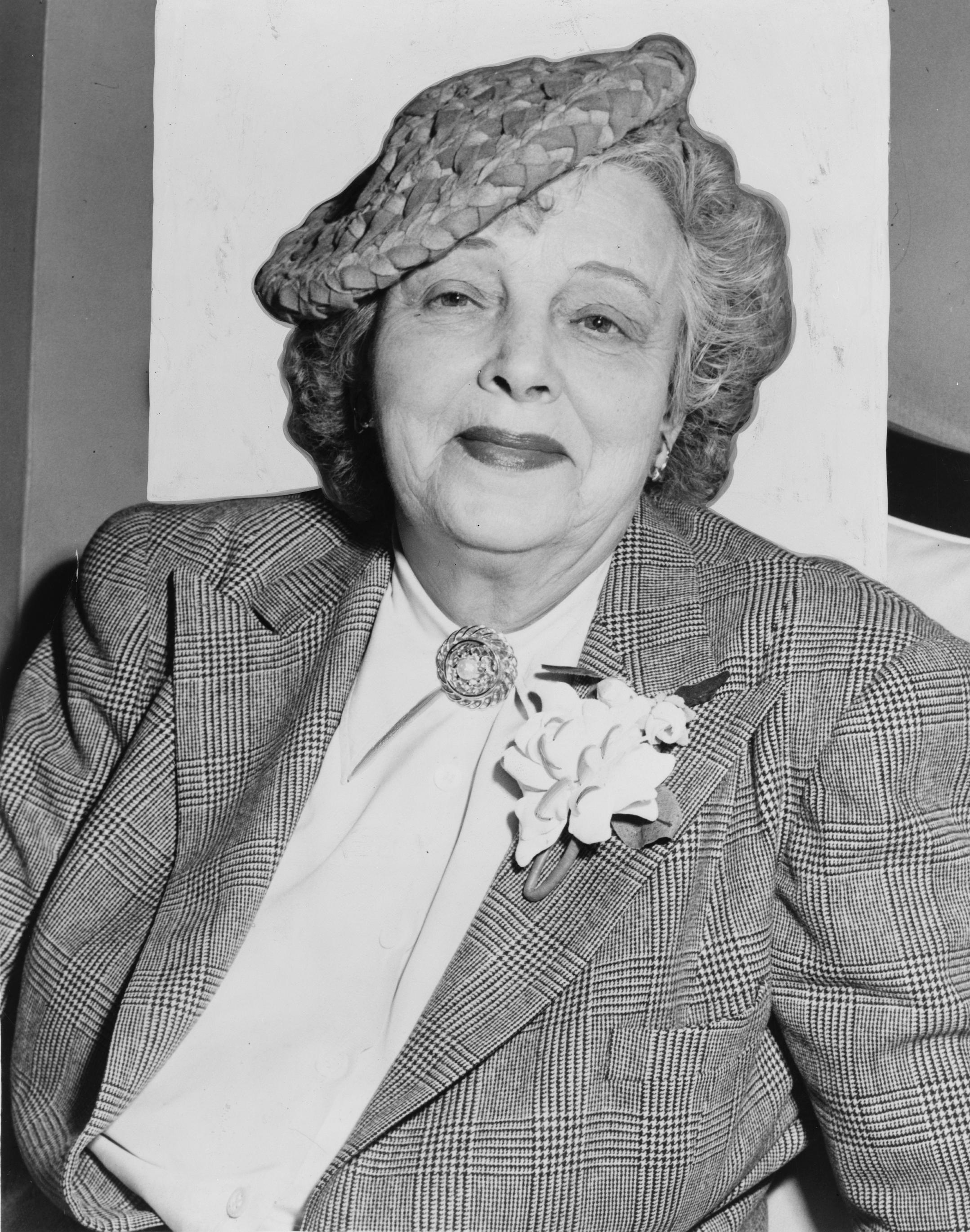 Margaret Anderson, American writer and magazine editor